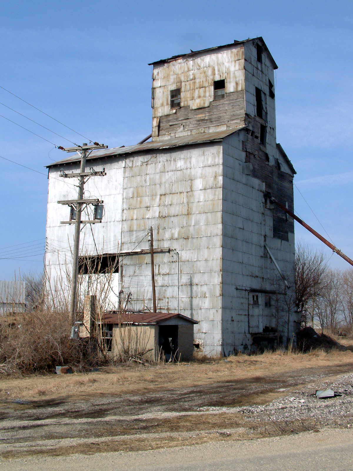 The old grain elevator at Rileysburg, Indiana. This view looks west from County Road 300 West.